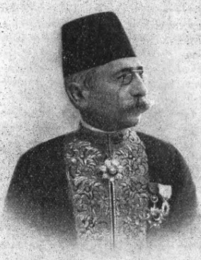 Tovmas Terziyan